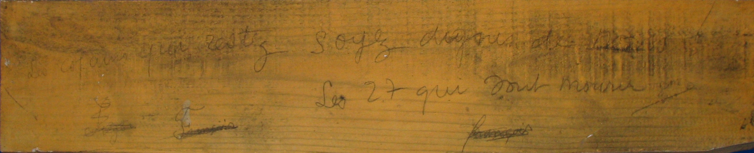 Guy Môquet's famous last words, written on a wooden plank the day he was executed by a firing squad.